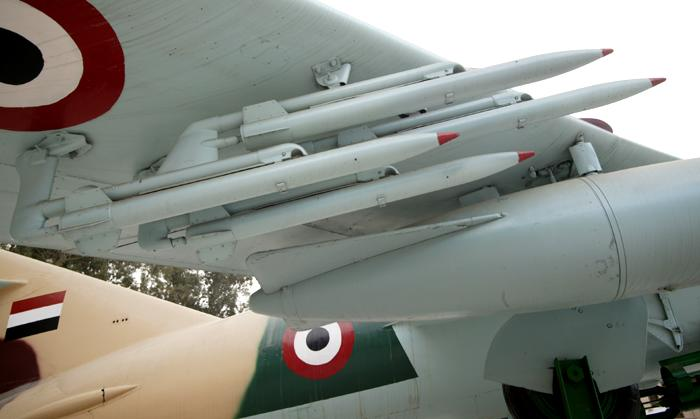 Close up of rockets of an Egyptian MiG-17F